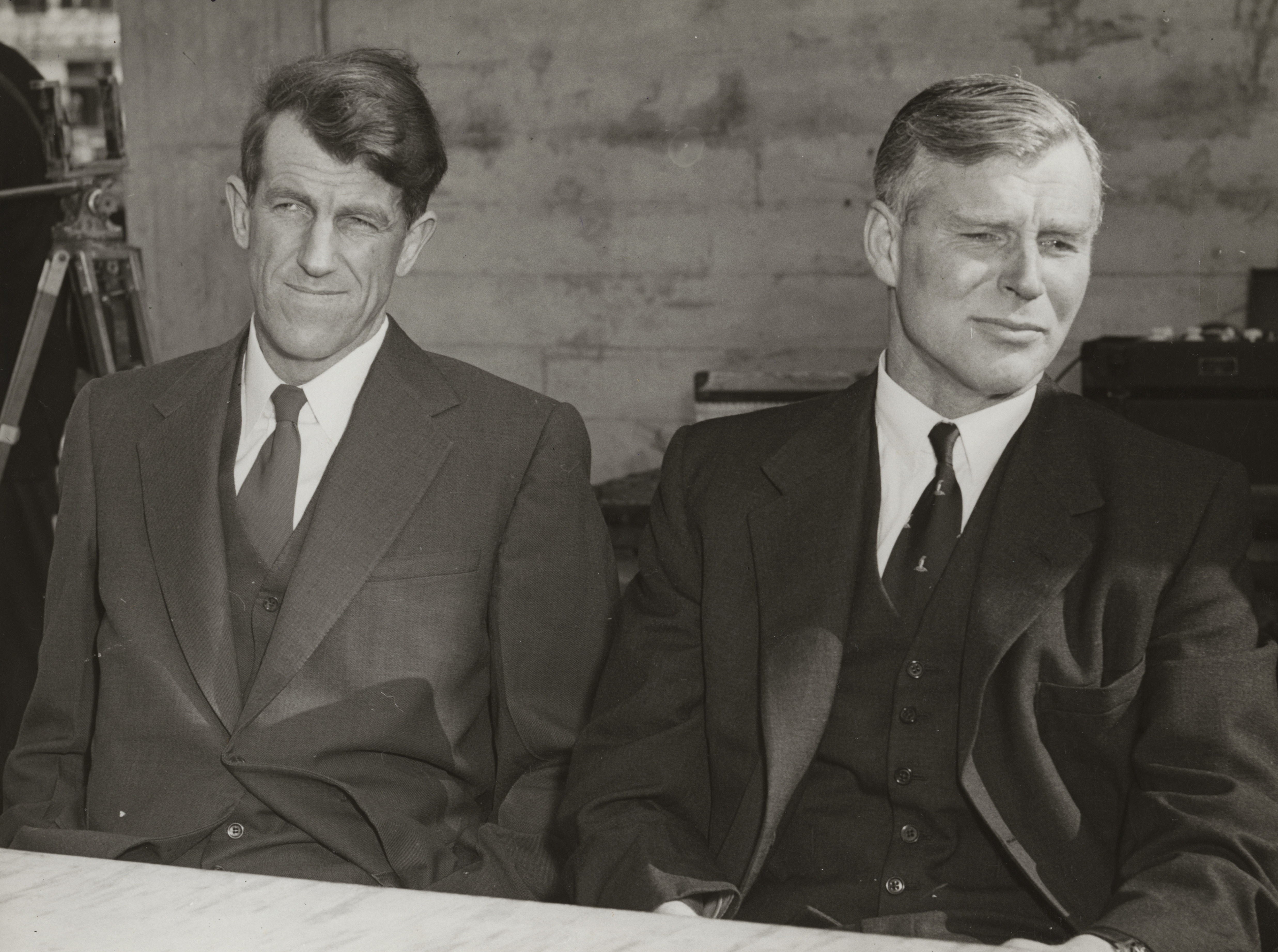 Sir Edmund Hillary (left) and Sir Vivian Fuchs during a press conference on a Wellington wharf, 1958, after the return of the members of the Commonwealth Trans-Antarctic Expedition (1955–58). Photographer unidentified. Physical Description: Silver gelatin print, 15.2 x 21.2 cm.